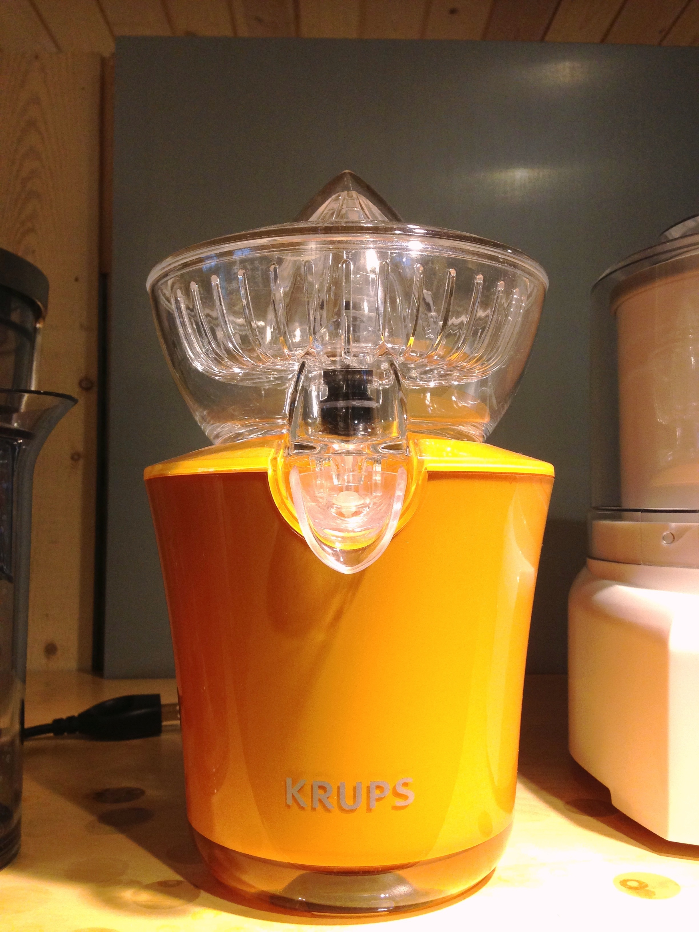 Krups - Mar 2013